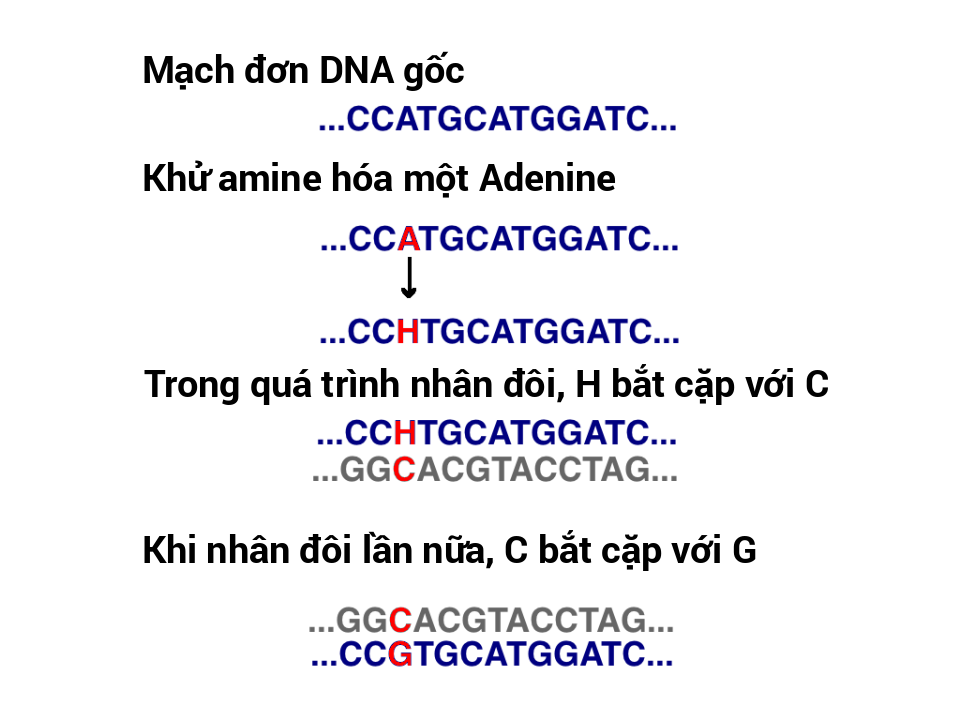 Vietnamese translation of Adenine_Deaminates_to_Guanine.png, creator DMLapato.